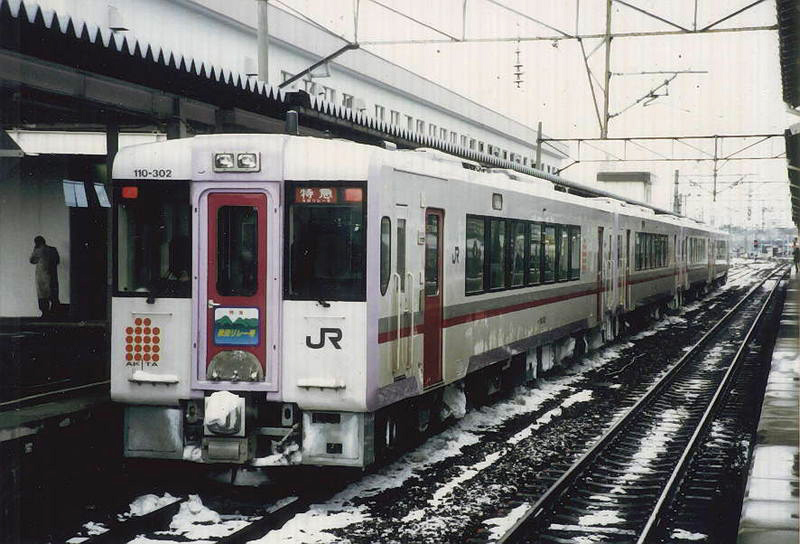 JR East KiHa 110-300 series 4-car DMU formation at Kitakami Station on an "Akita Relay" limited express service